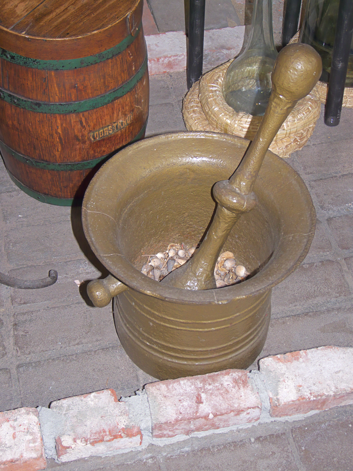 Mortar